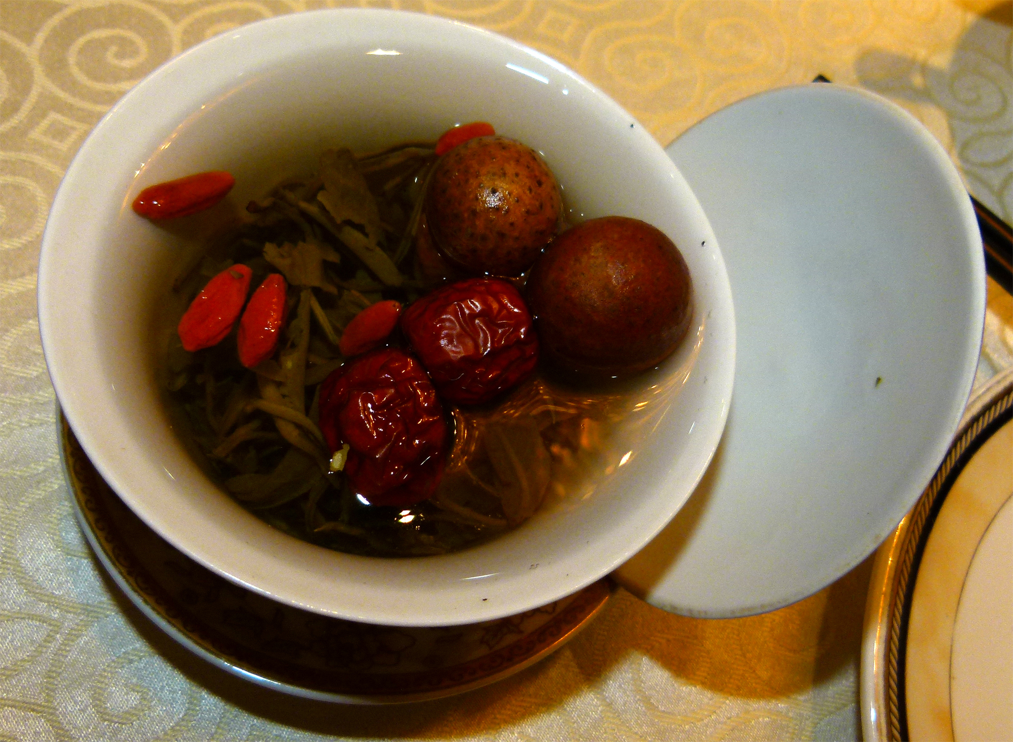 San pao tai (三炮台) - tea of the Hui minority in Lanzhou (West-North China)